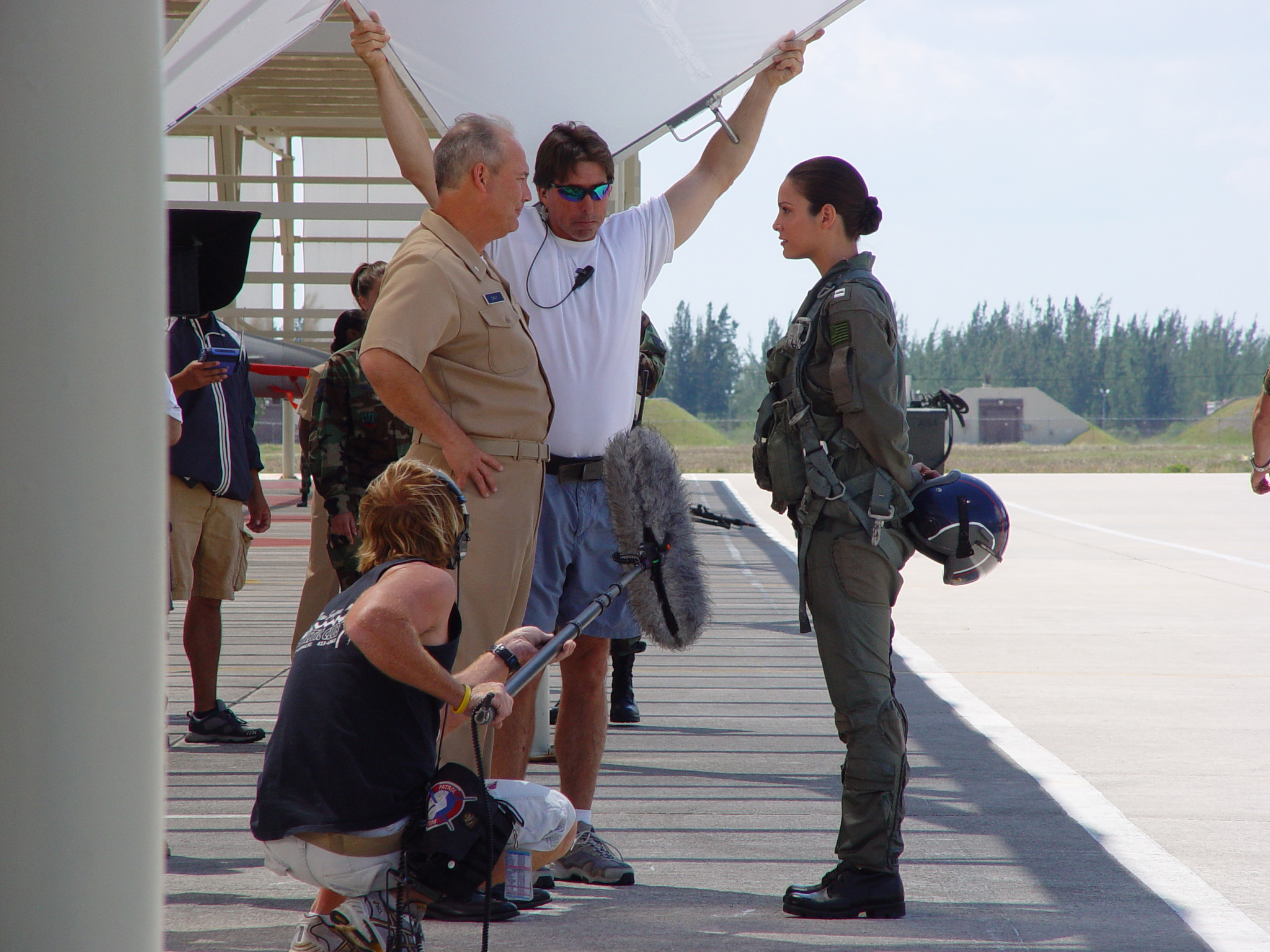 Miss Universe 2001 Denise Quiñones, right, cuts a scene on the aircraft ramp here at Homestead Air Reserve Base, Fla. on March 27. She plays the role of Rachel Starling, an F-18 pilot and potential love interest of "Aquaman." The Warner Brothers crew shot scenes at five locations on the reserve base. (US Air Force Reserve Photo by Lisa M. Macias)